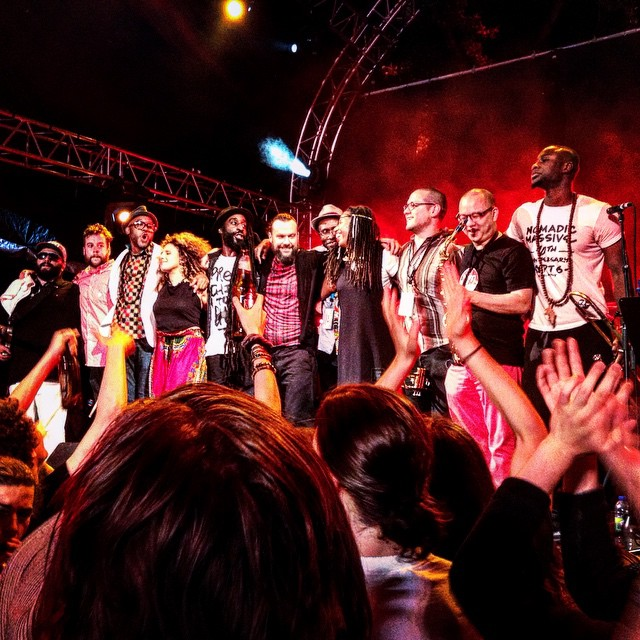 Nomadic Massive at the Montreal International Jazz Festival in 2015